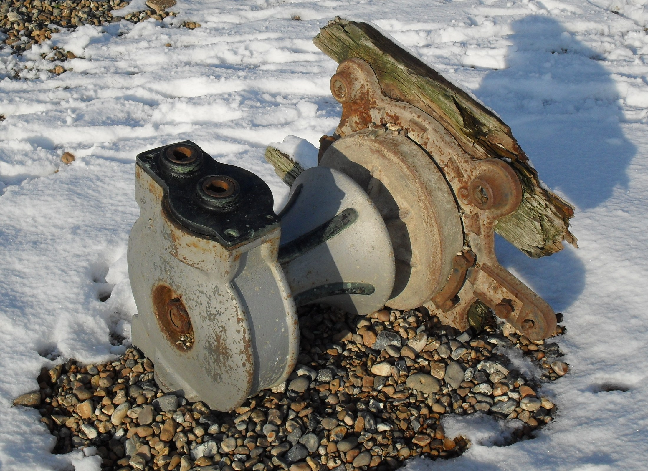 An old capstan on the beach at Worthing, West Sussex, England. One of three such 19th-century structures remaining on the beach; this one is next to Worthing Lido.